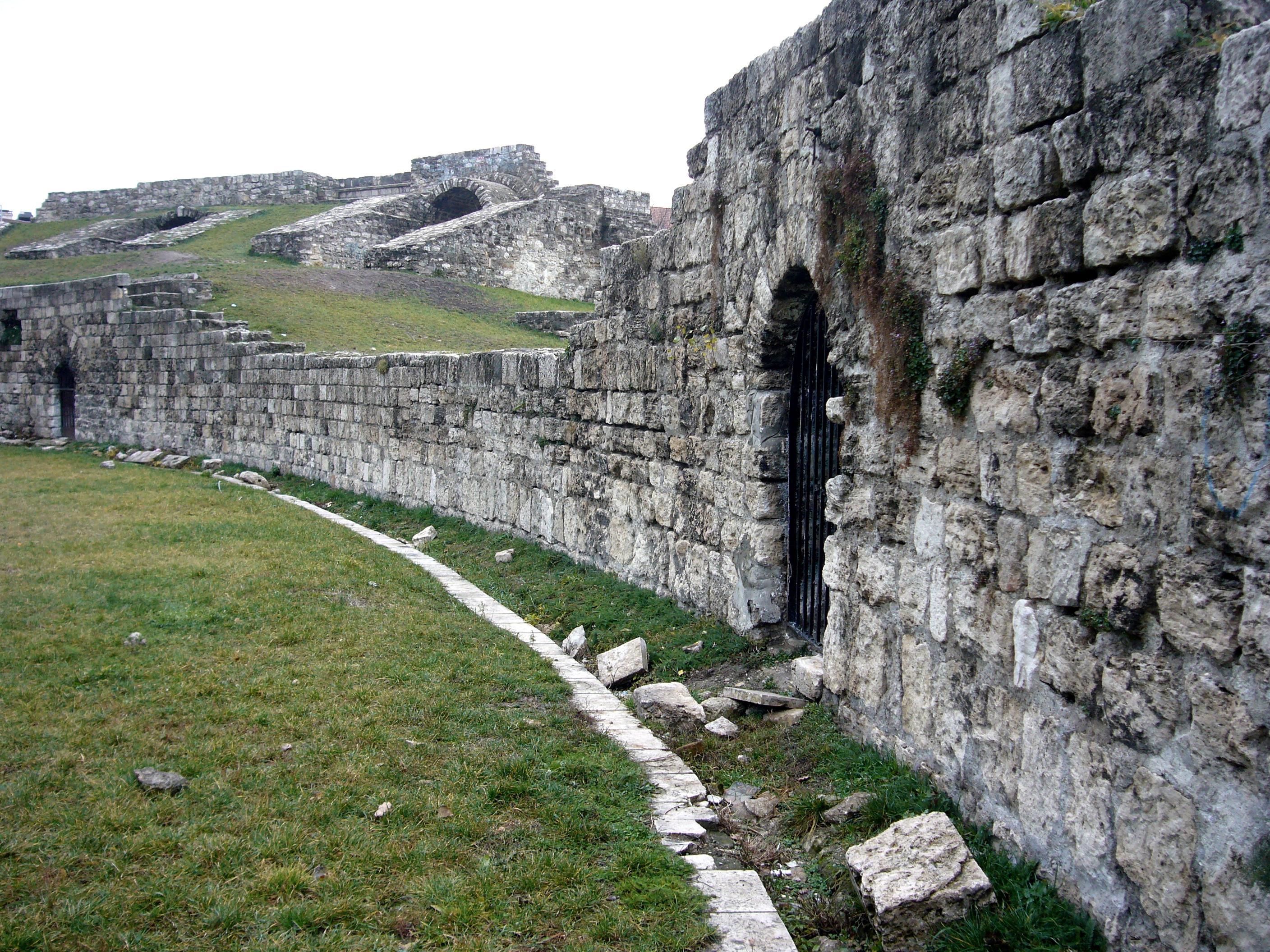 Libby led us, unannounced, to the magnificent ruins of the Roman amphitheatre at Aquincum. (This was probably in response to my oft-expressed desire to at last see some Roman ruins up close and personal.)